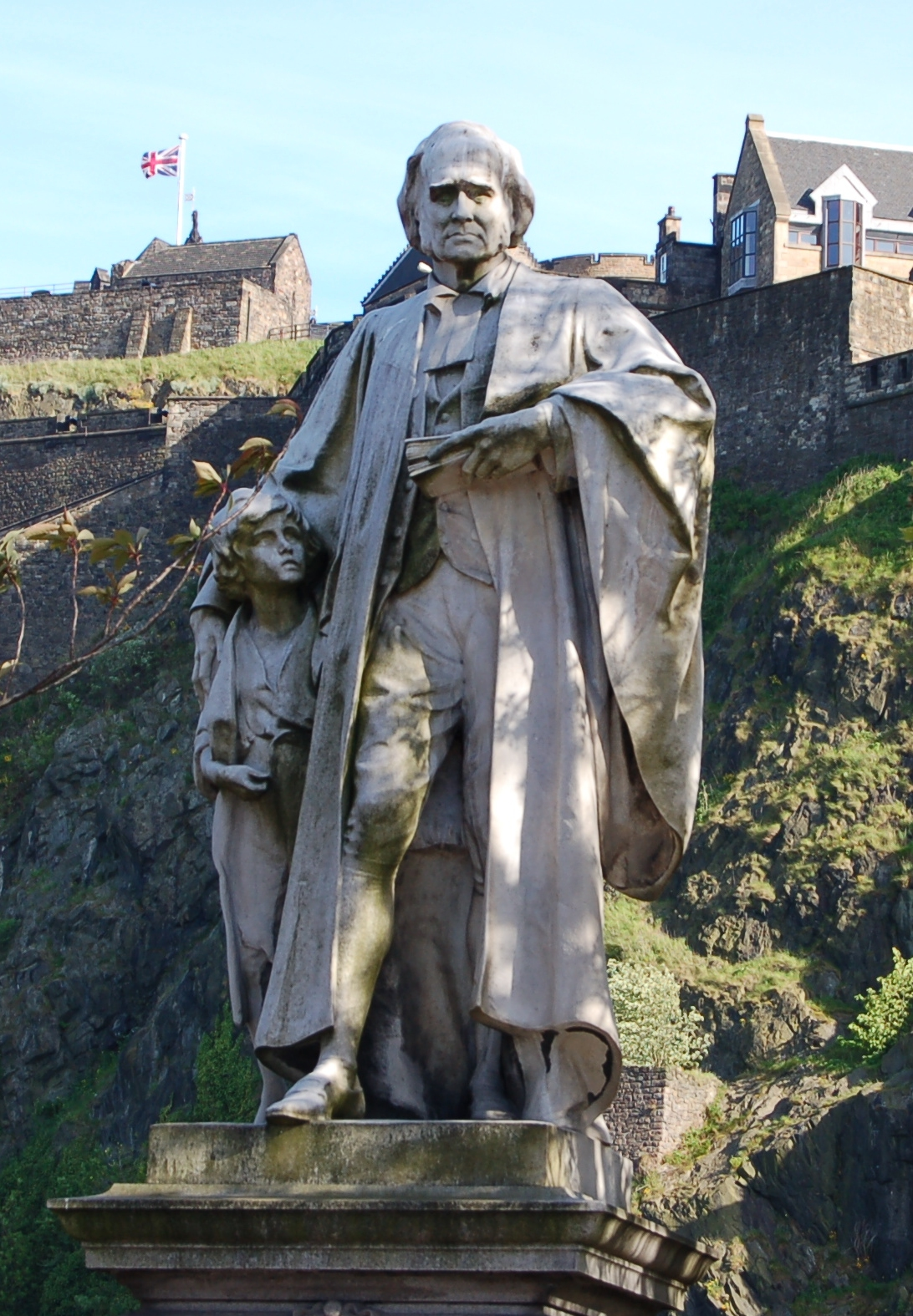 Photograph of the statue of Thomas Guthrie DD, by F. W. Pomeroy, unveiled 1910. Princes Street Gardens, Edinburgh, Scotland.